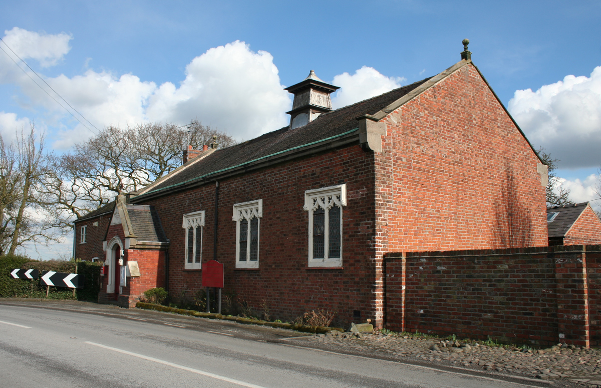 United Reformed Church, Minshull Vernon, Cheshire, seen from the southwest